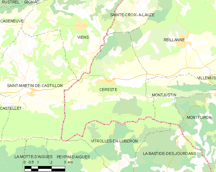 Map commune FR insee code 04045.png Légende